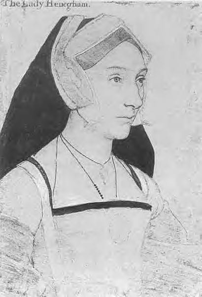 This drawing by Hans Holbein is of Mary Shelton who was the daughter of Sir John Shelton and his wife, Lady Anne Boleyn. Mary was first cousin to Queen Anne Boleyn. She married her cousin, Sir Anthony Heveningham of Ketteringham c. 1546 and was the mother of Sir Arthur Heveningham. After the death of Sir Anthony Heveningham in 1557, Mary married Philip Appleyard, Esq., Her sister, Madge (Margaret) Shelton attended Anne Boleyn on the scaffold.